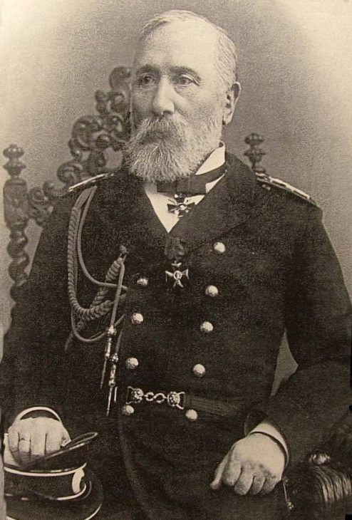 Tchihatchev Nikolai Matveevitsch (1830-1917) - admiral of Russia, ministr